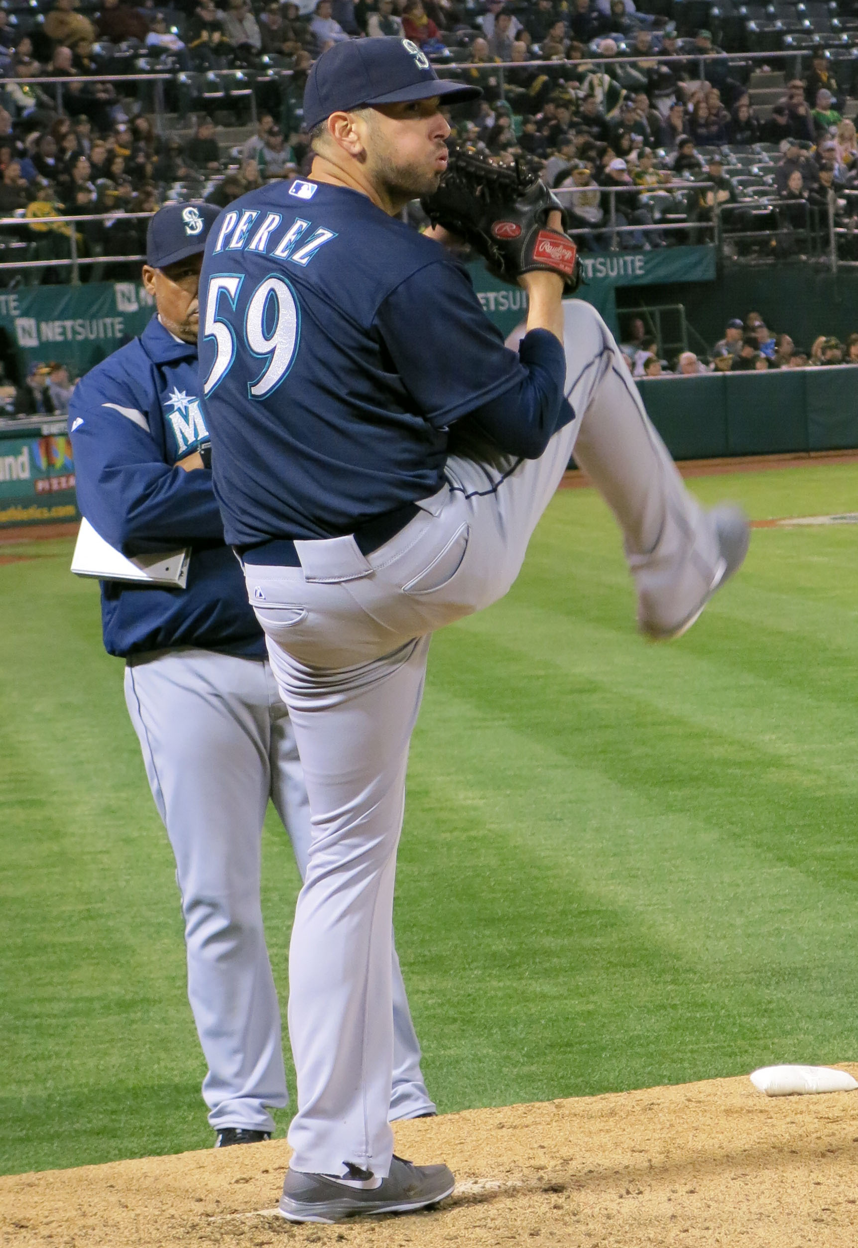 Seattle Mariners pitcher Óliver Pérez warms up in the bullpen in Oakland, California.